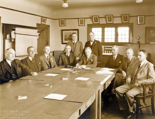 Item is a photograph of West Vancouver Council members signing the agreement for the creation of the Lions Gate Bridge. Signatories include (from left): Engineer James Duncan, Councillor L. Garthorne, Councillor William Dickinson, John Anderson (British Pacific Properties Secretary-Treasurer), Reeve Joseph B. Leyland, Municipal Clerk William Herrin, Councillor Robert Fiddes, and Councillor Jerry Edgar. British Pacific Properties Solicitors R.P.Stockton and Municipal Solicitor Gordon Robson are standing. West Vancouver Archives. Joseph B. Leyland fonds. 136.WVA.LEY Signing the First Narrows Bridge Agreement, May 1934. Photograph by Leonard Frank.